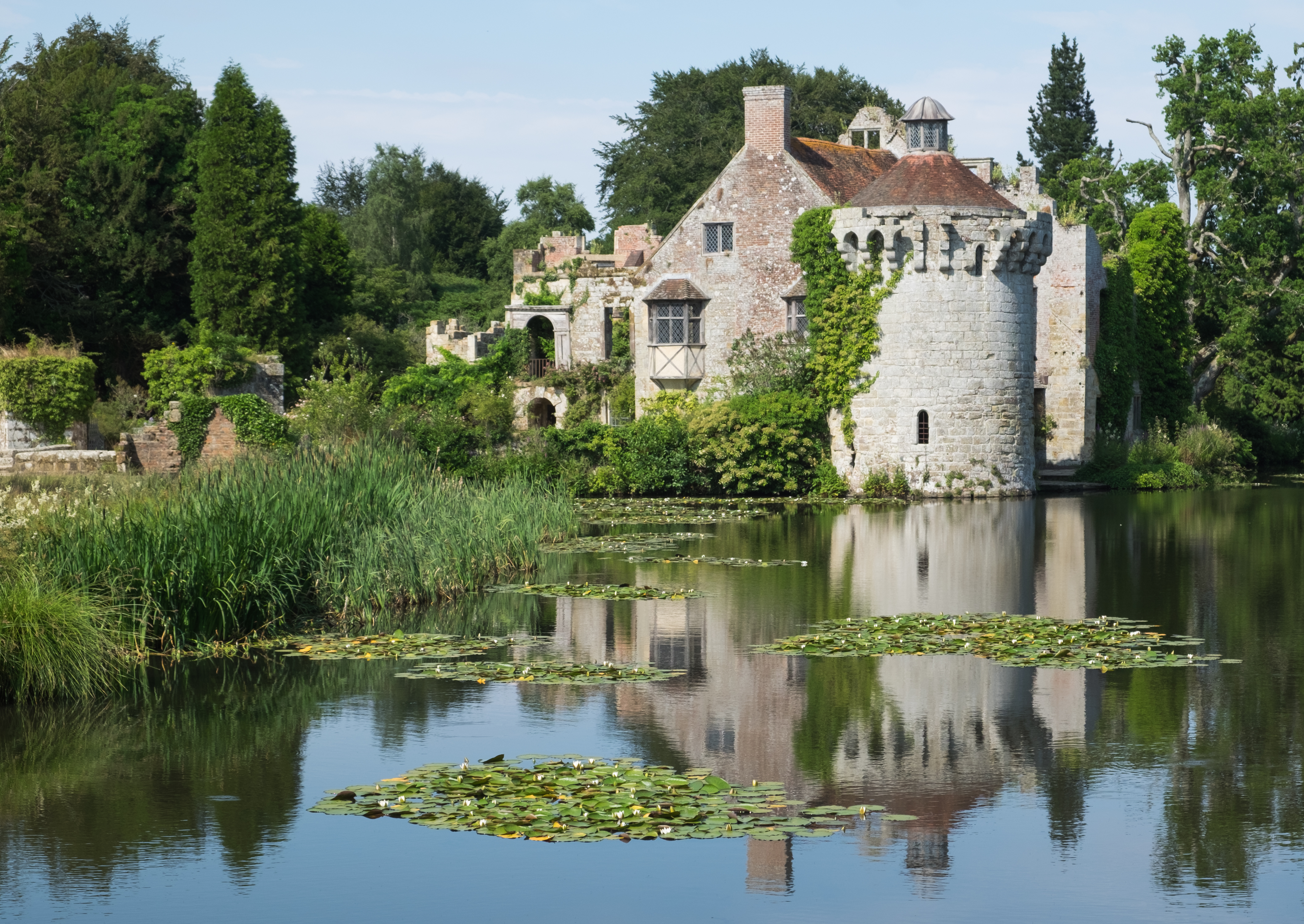 The old Scotney Castle, Lamberhurst. This 14th century castle ruin is a grade I listed building in England.